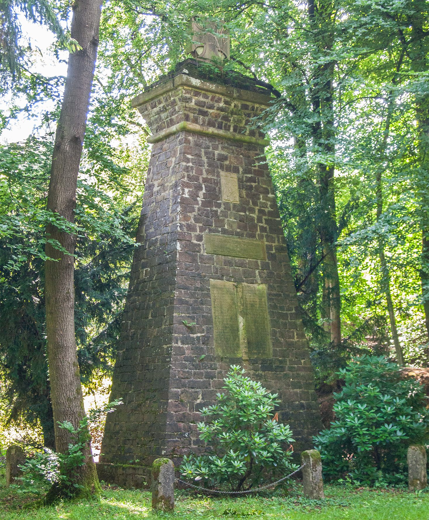 This image shows a heritage building in Germany, located in the North Rhine-Westphalian city Preußisch Oldendorf (no. 10).